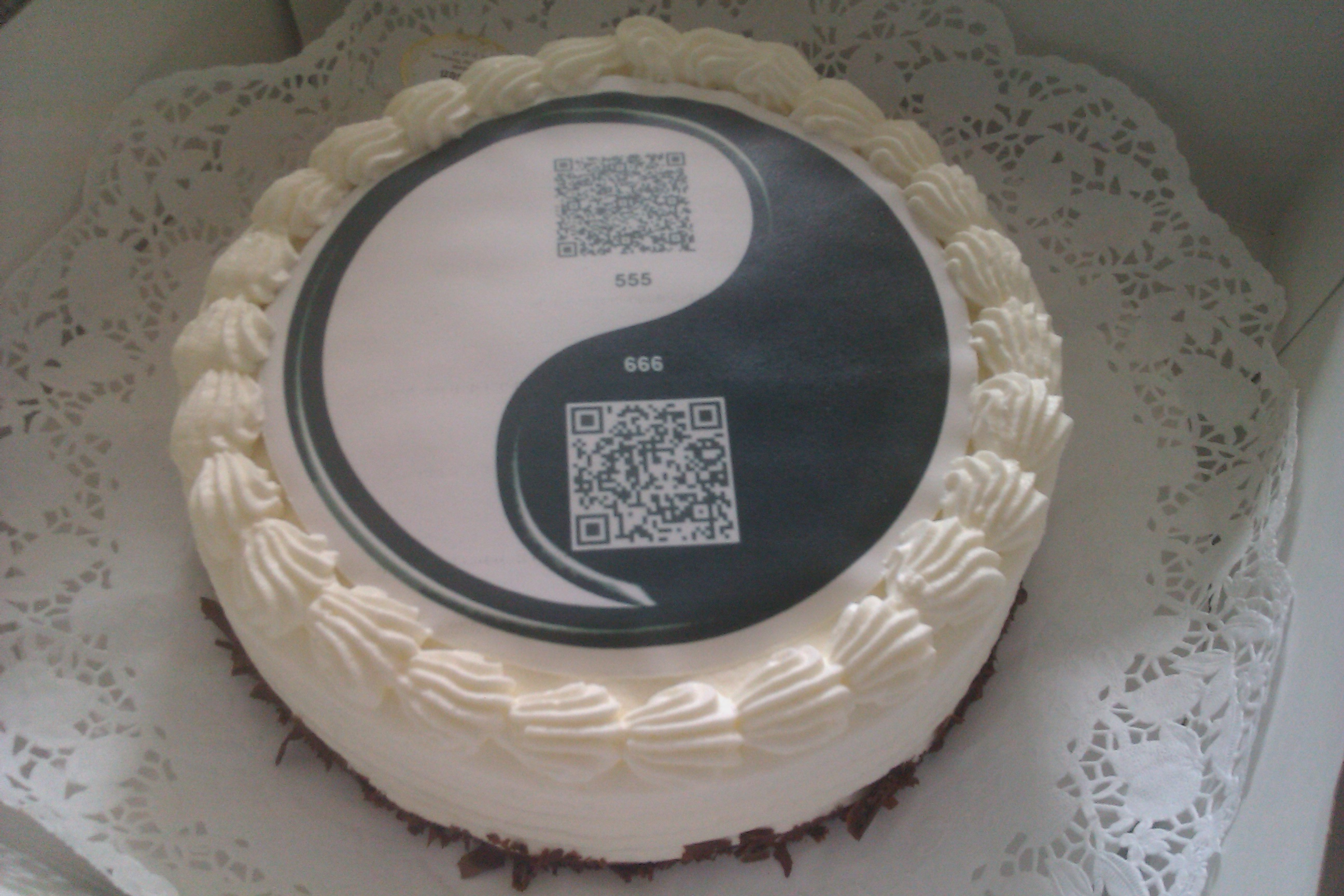 System Administrator Appreciation Day Fancy Cake with two QR-Codes.